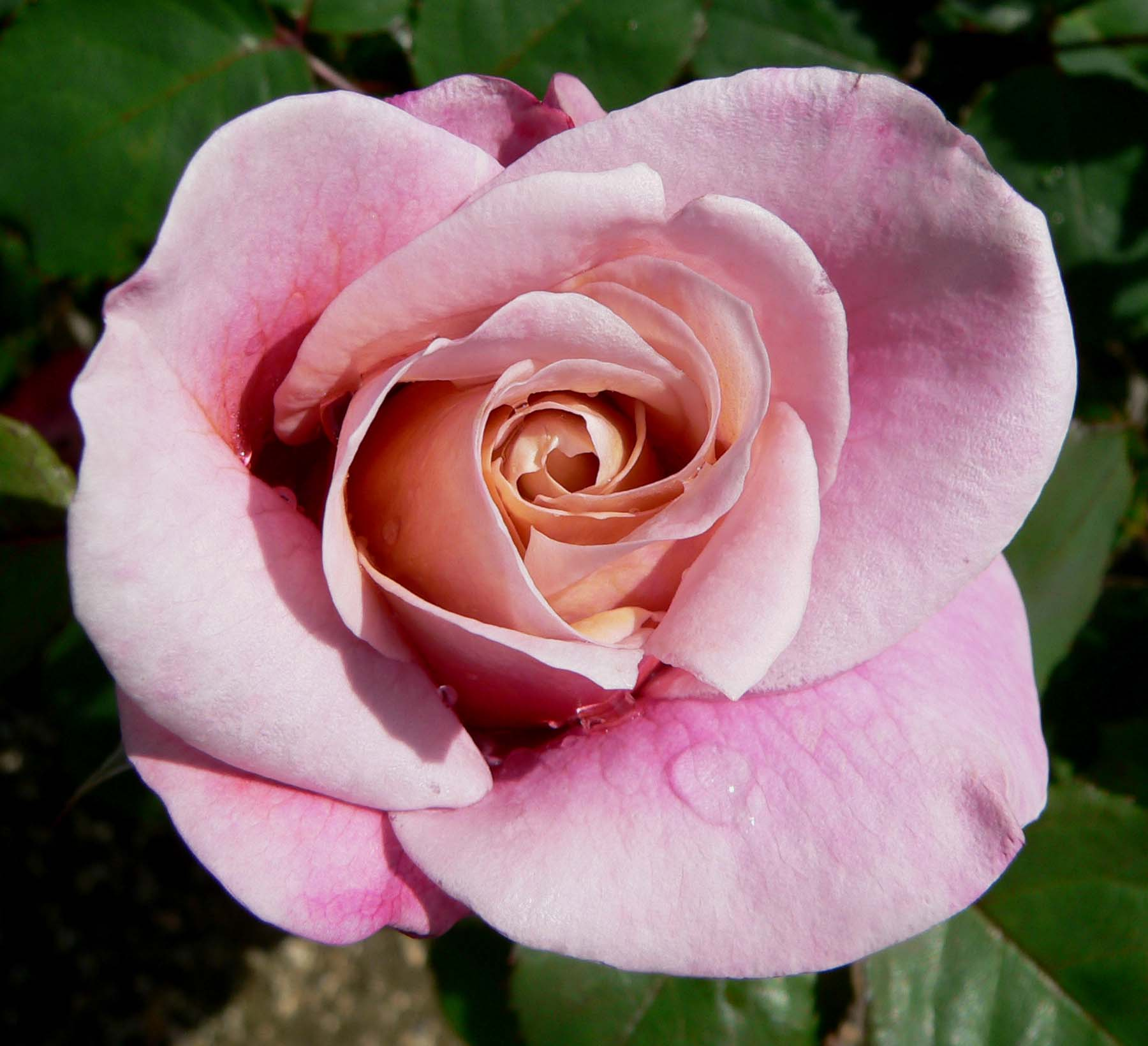 Photo of Rosa 'Distant Drums' at the San Jose Heritage Rose Garden